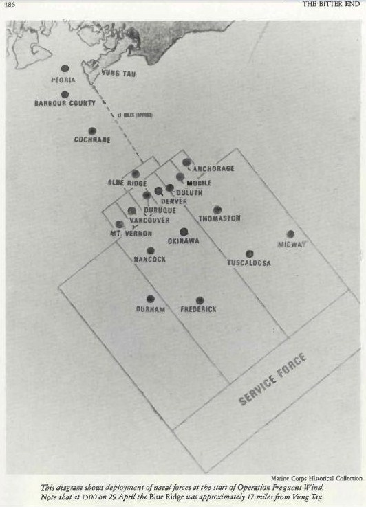 WYSWYG Blue Ridge waiting: "Included in the meeting on board the Blue Ridge was a 35mm slide presentation of the DAO landing zones, obstacles to flight, aerial checkpoints. and the ingress/egress route from the task force to Saigon. [85] After floating off the coast of South Vietnam for over a week, the 9th MAB was more than ready for action. Every day since its arrival the task force had expected orders to begin the evacuation, but the only directives it received changed the response time. [86] By the morning of Tuesday, 29 April, everyone in the task force knew the status of the North Vietnamese offensive and the peril that Saigon faced, and wondered why the evacuation had not begun. ... This day, however, was different. Finally, the waiting was over. Admiral Gavler directed USSAG/Seventh Air Force and Seventh Fleet to begin Frequent Wind Option IV at 1051 (Saigon time). With that announcement the evacuation of Saigon officially began. At 1215. the 9th MAB received General Burns' message directing them to "execute." For some unexplainable reason, dissemination of this message to the participating units had been delayed from 1052 until 1215. " [87]